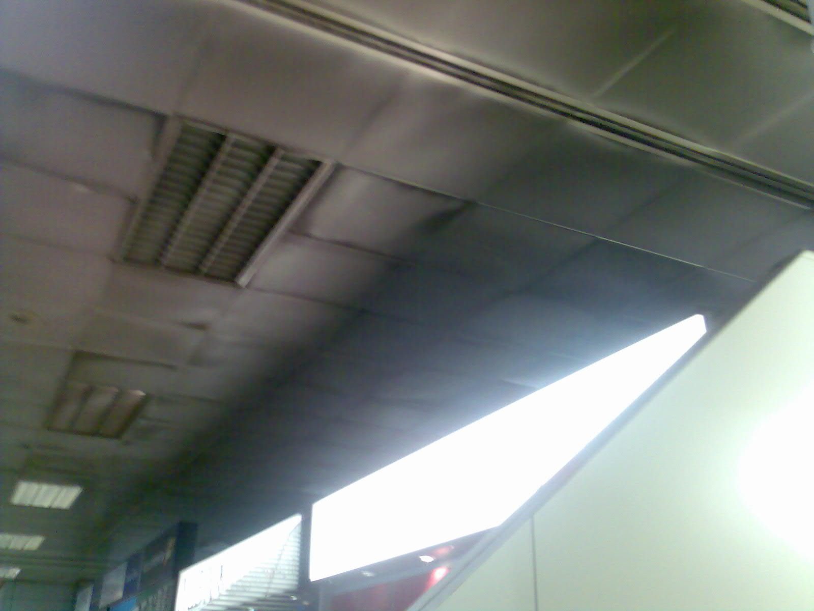 Internal damage caused by the flames from the foiled terrorist attack on Glasgow International Airport, two weeks previous to this picture.